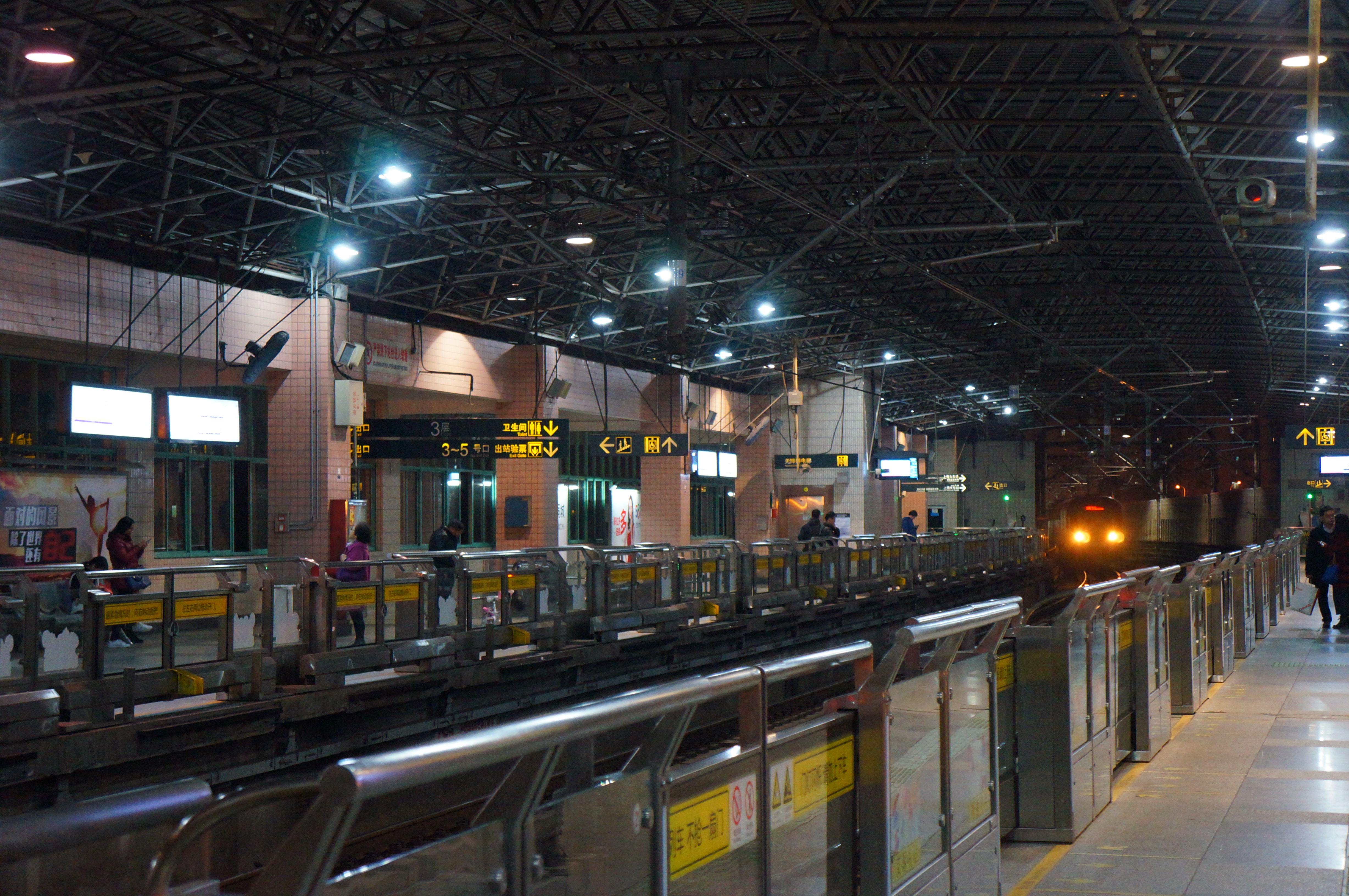 201703 Platform of Zhongtan Road Station, the effect does not look good in the night